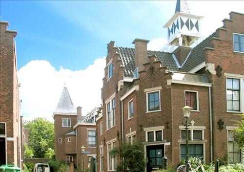 Van Ostadehouses, Jacob Catsstraat, The Hague. Build between 1886-1889 by the Jews in The Hague. Nowadays it is called 'Wijnand Esserhof'.